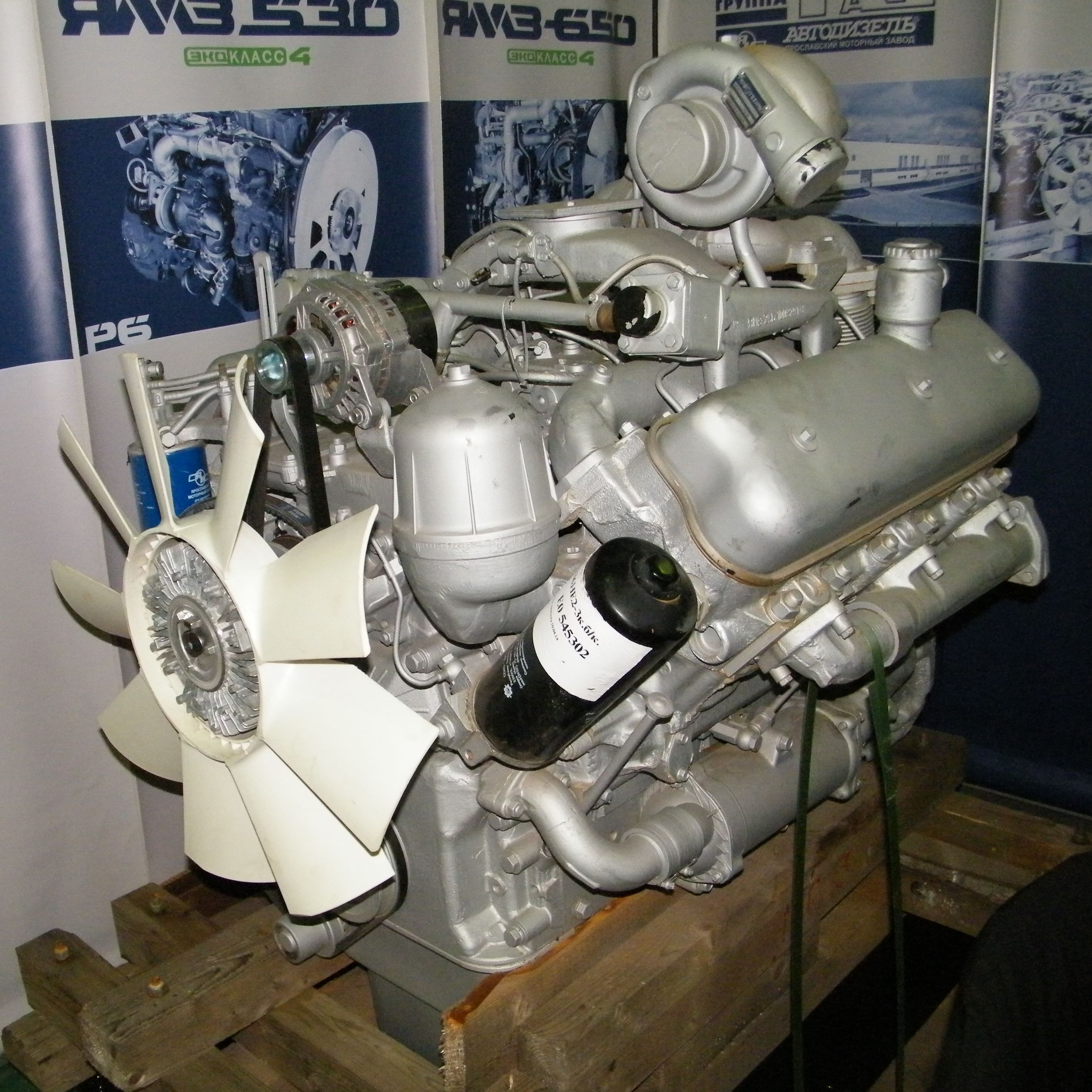 Six cylinder diesel engine JaMZ-236